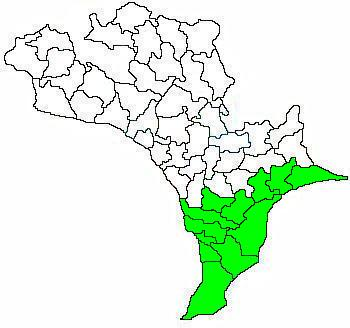 Mandals in Krishna revenue division (in green) of Krishna district